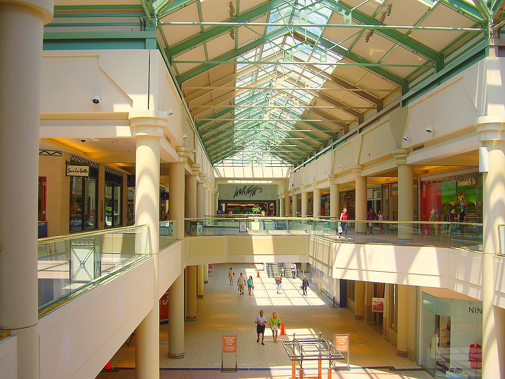 The Mall being renovated during Summer 2007